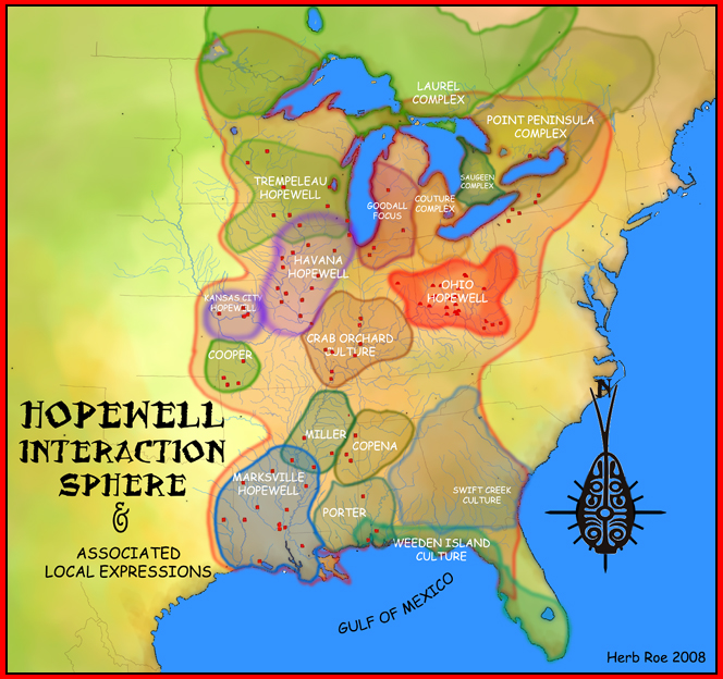 A map showing the Hopewell Interaction Sphere and various local expressions of the Hopewell cultures, including the Laurel Complex, Saugeen Complex, Point Peninsula Complex, Marksville culture, Copena culture, Kansas City Hopewell, Swift Creek Culture, Goodall Focus, Crab Orchard culture and Havana Hopewell culture.